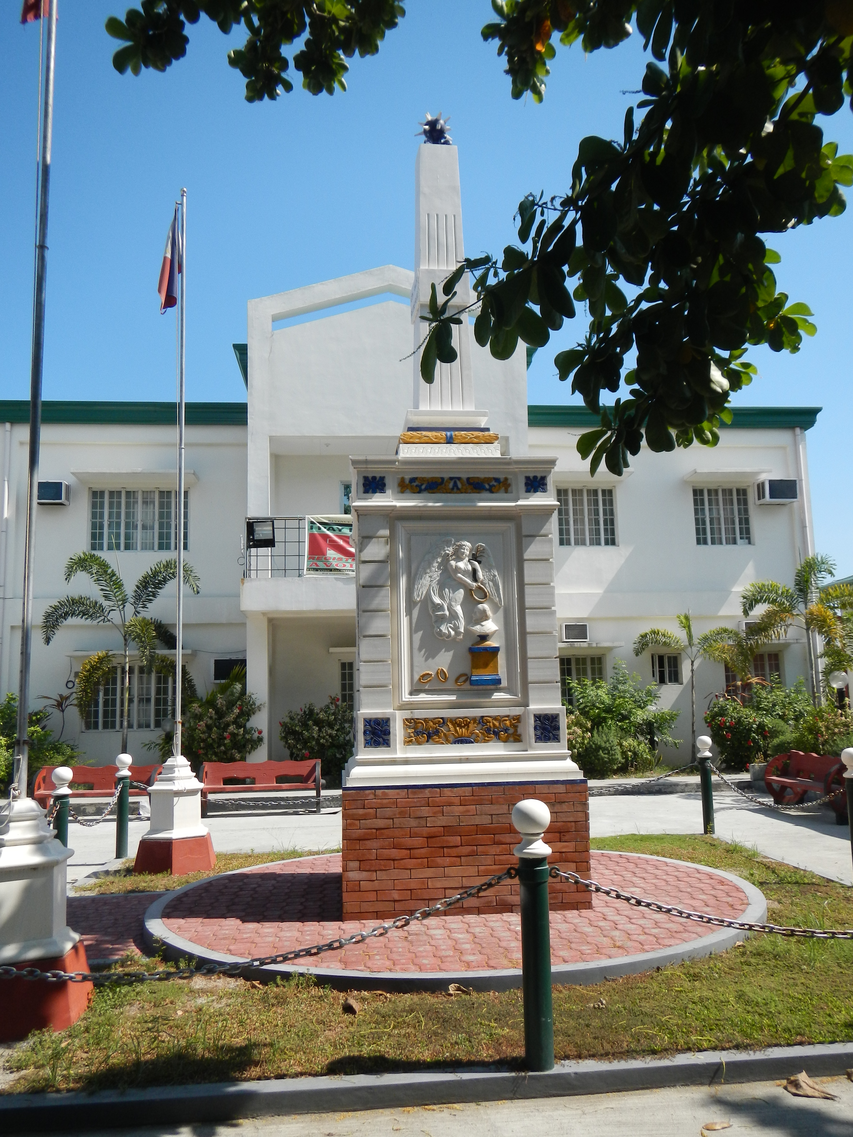 Bacolor, Pampanga Bacolor, Pampanga Municipal Hall Compound Complex, (including therein the Police station, Covered basketball court and La Patria Acradecida - 1853 [Simón de Anda y Salazar ] statue (Bacolor, Pampanga) all in Barangay Cabambangan (Poblacion), Bacolor, Pampanga).